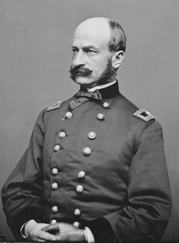 Adolph von Steinwehr (September 25, 1822 - February 25, 1877), 1860s photo